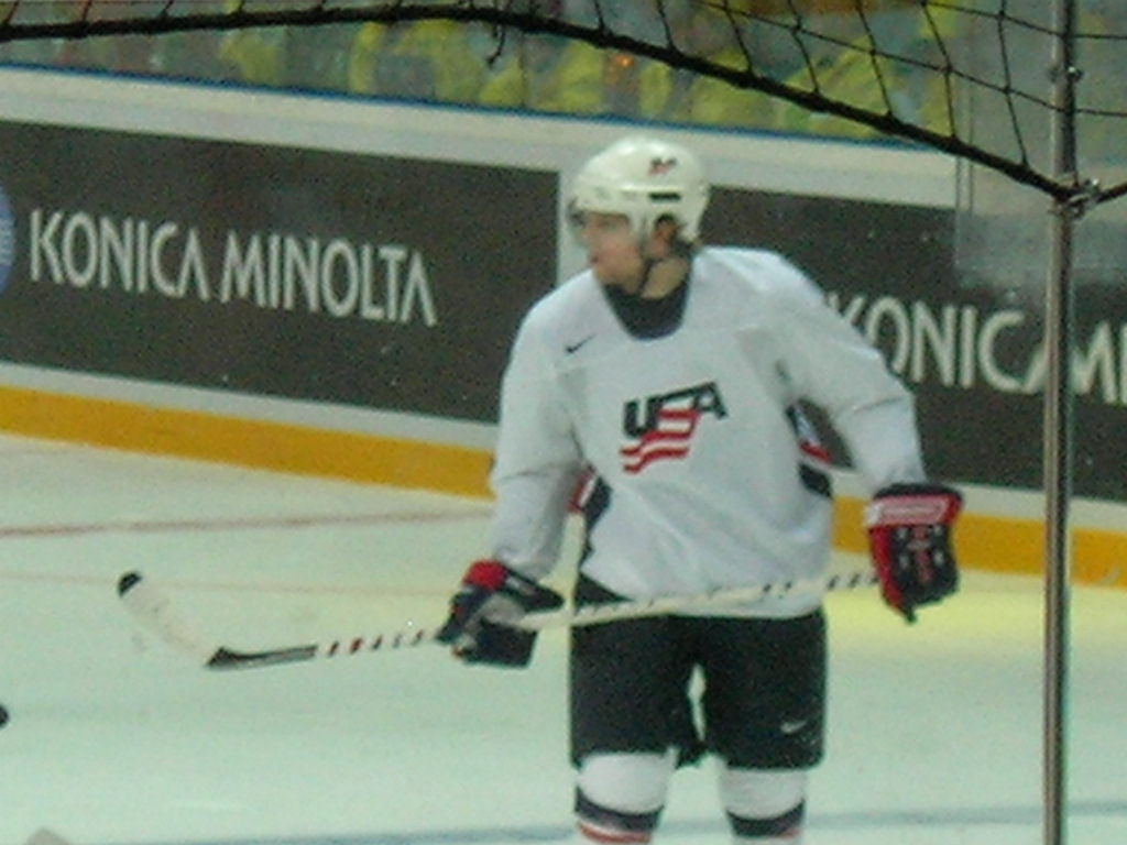 Phil Kessel, 29.04.2007 USA-Belarus IIHF World Championship game (Mytischi, Arena Mytischi) Photographer: Anne Maslova